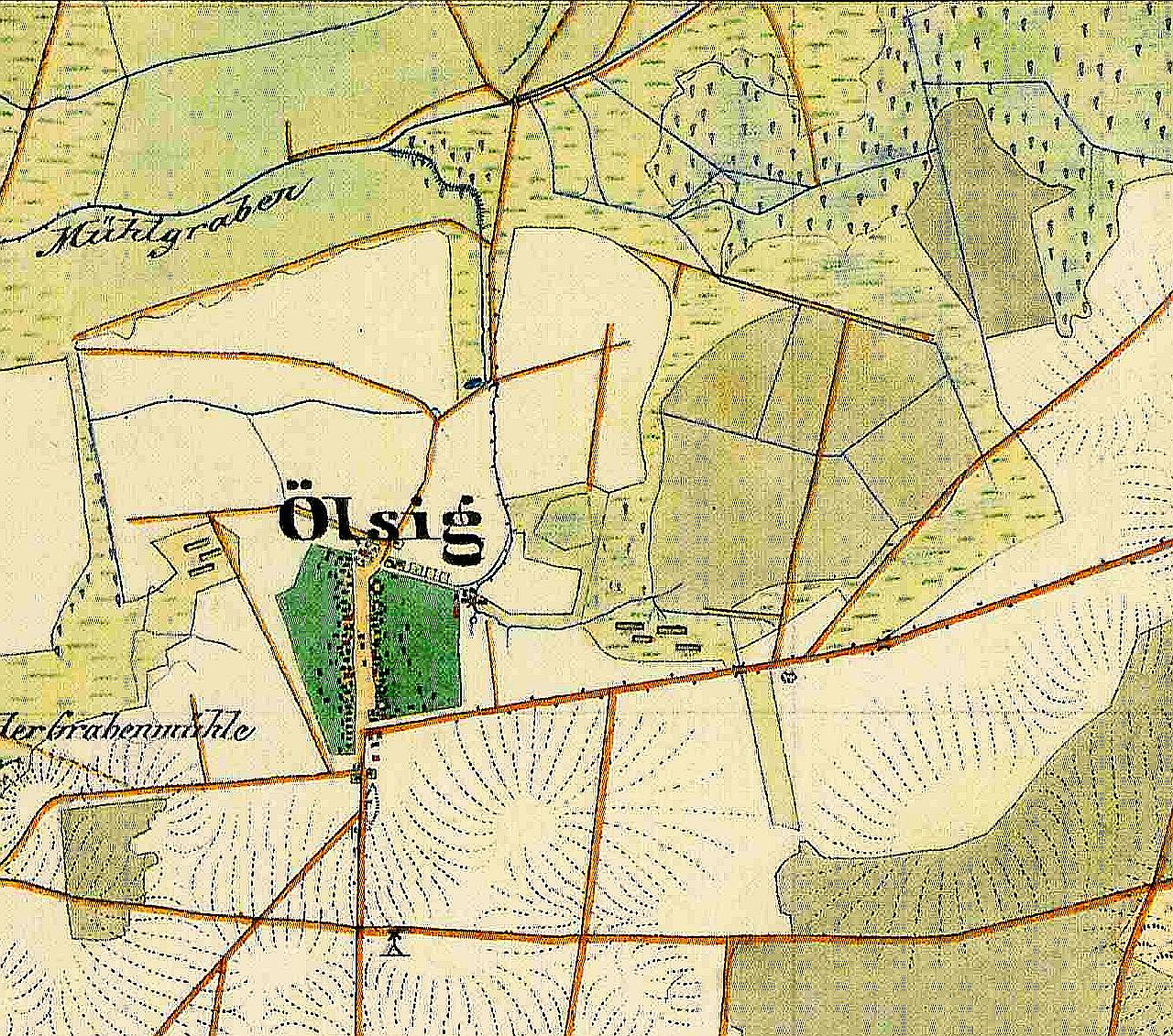 Oelsig, Lkr. Elbe-Elster, Brandenburg, Germany, detail from the Urmesstischblatt Sheet 4346 Schilda, drawn in 1847